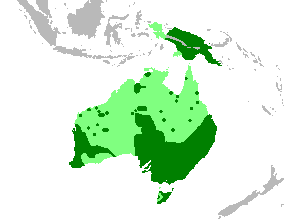 Distribution of the Brown Falcon (Falco Berigora) Green: Year-round distribution Dark green: Core areas of distribution Derived from: James Ferguson-Lees & David Christie: Greifvögel der Welt. Kosmos, 2009. ISBN 3440115097, p. 286.